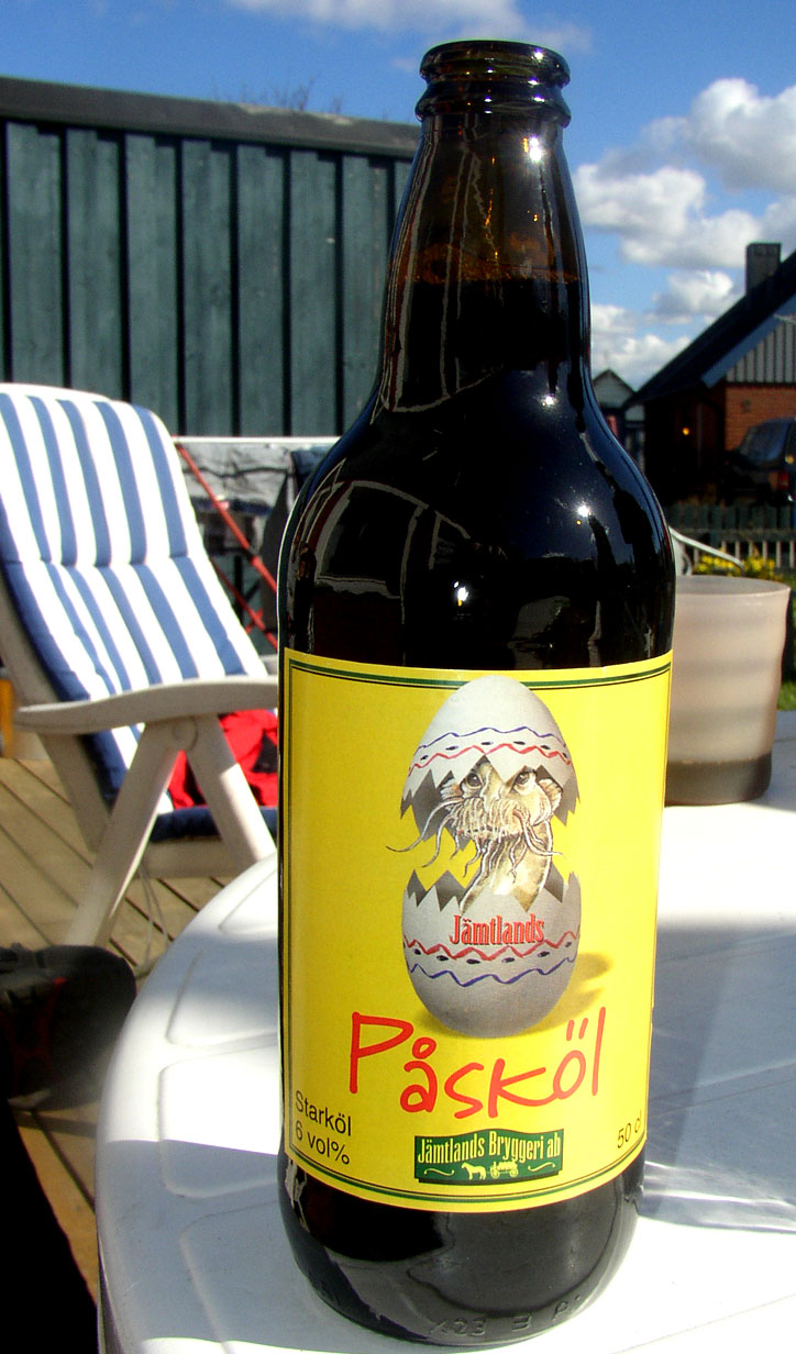 Beer from Pilgrimstad in Jämtland, Sweden and specially brewed for Easter. See Jämtlands Bryggeri.